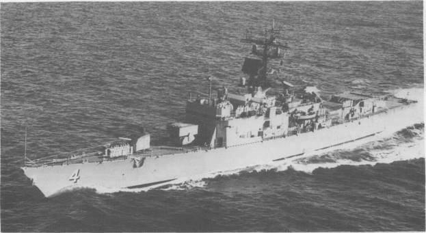 The U.S. Navy guided-missile escort ship USS Talbot (DEG-4) off Puerto Rico, 1967.